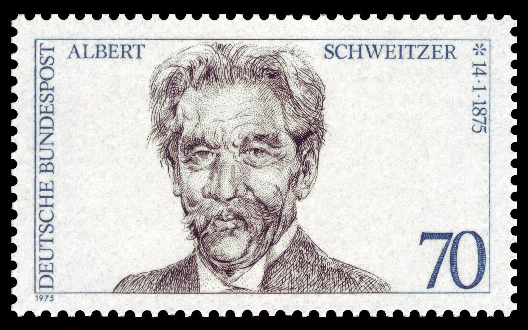 100th day of birth of Albert Schweitzer (1875–1965) Ausgabepreis: 70 Pfennig First Day of Issue / Erstausgabetag: 15. Januar 1975 Michel-Katalog-Nr: 830